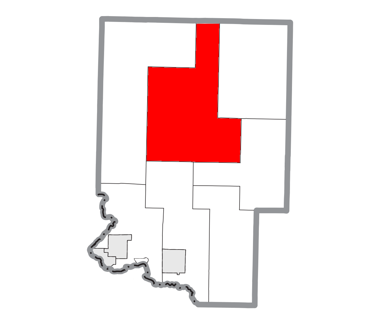 Felch Township, MI